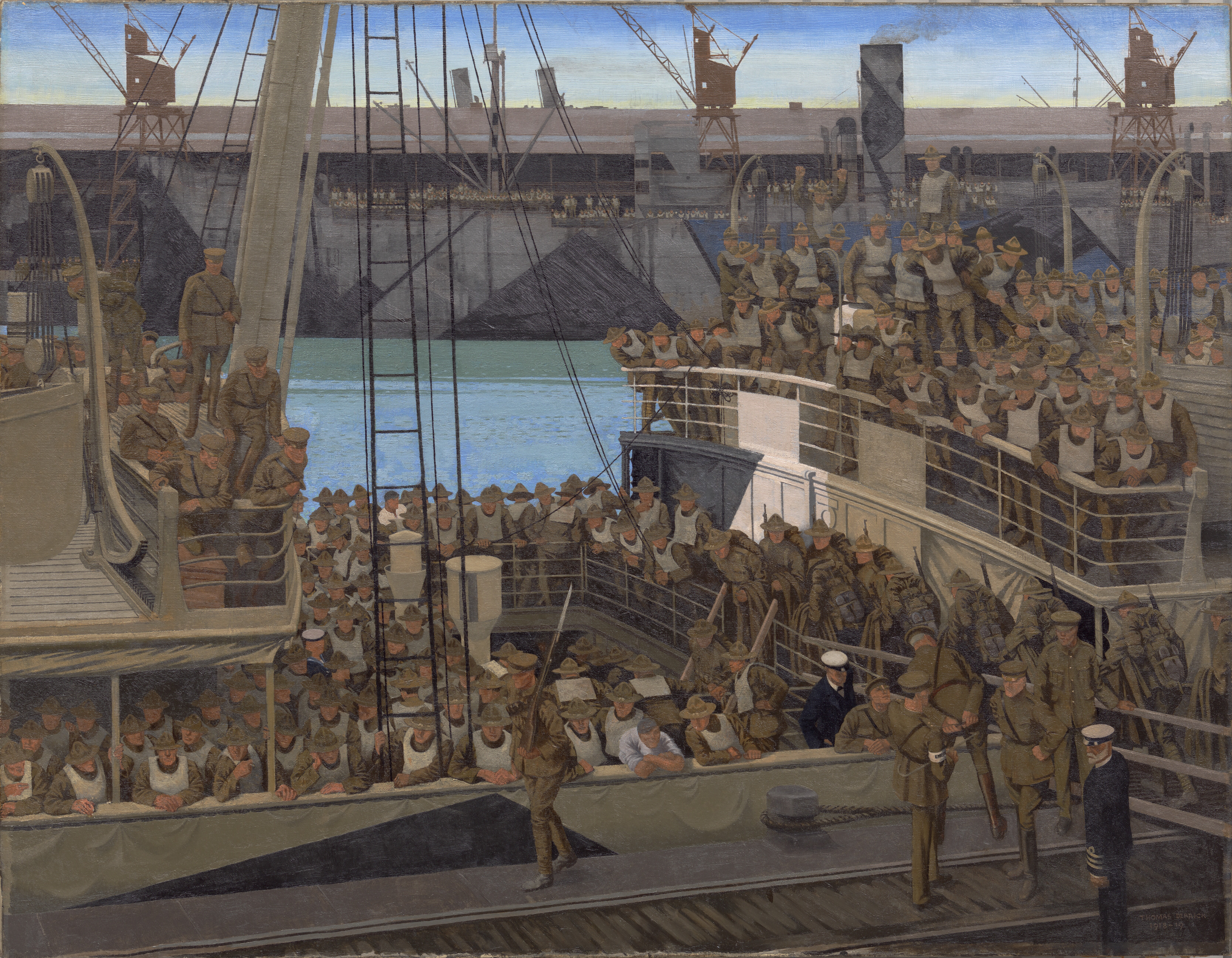 American Troops at Southampton Embarking for France image: A view of the upper deck of a troopship filled with American soldiers enroute to France. Another troopship similarly crowded is berthed on the opposite quay.